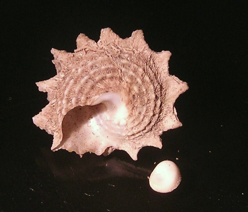 Lithopoma phoebium (synonym: Astralium phoebium) (Röding, 1798), a turban snail from the family Turbinidae; Florida.